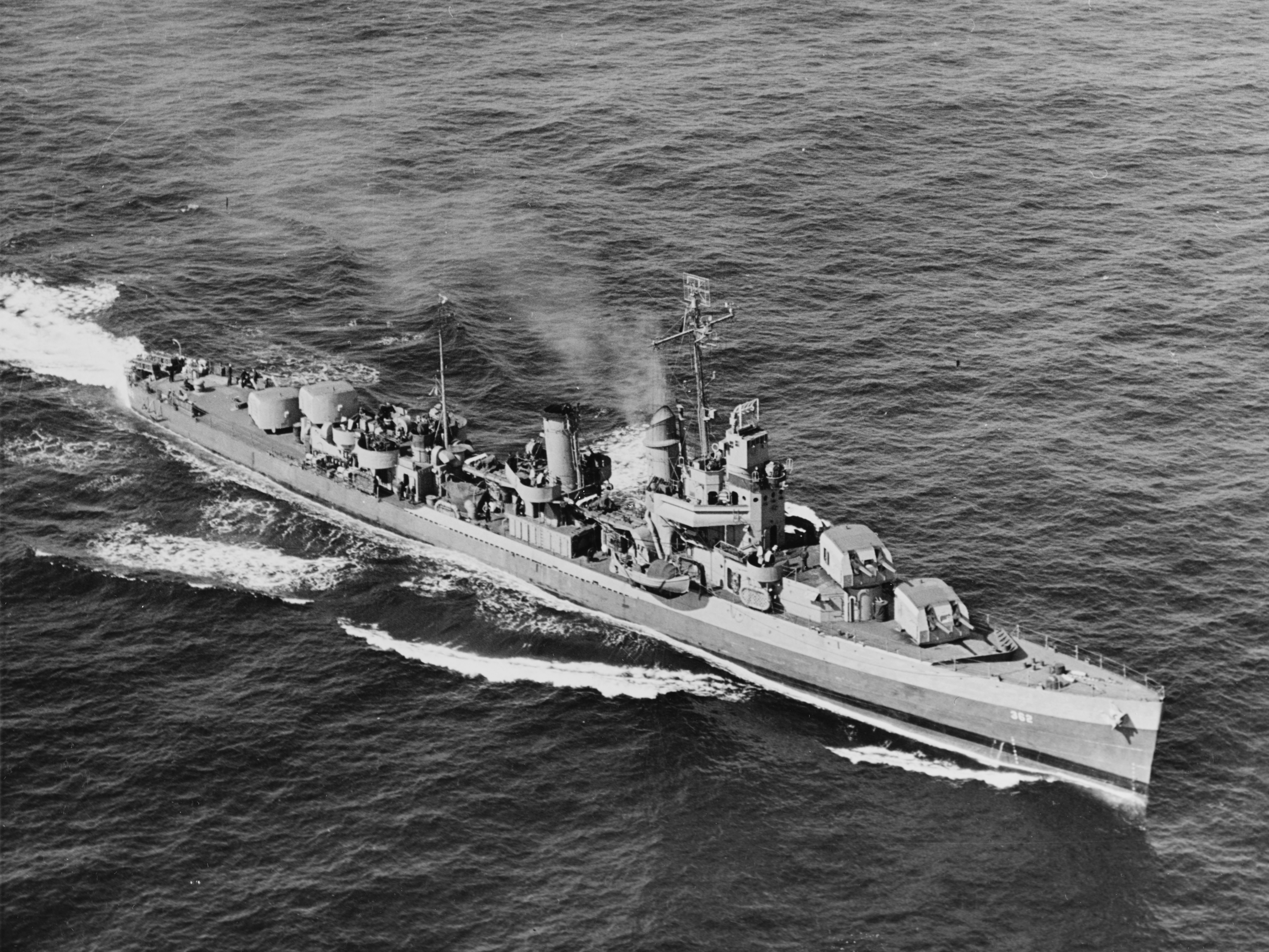 The U.S. Navy destroyer USS Moffett (DD-362) underway at sea on 26 March 1944. Note that she still carries four twin 5"/38 low-angle gun mounts. The No. 3 mount was removed on most ships of the class to counter top heavyness.